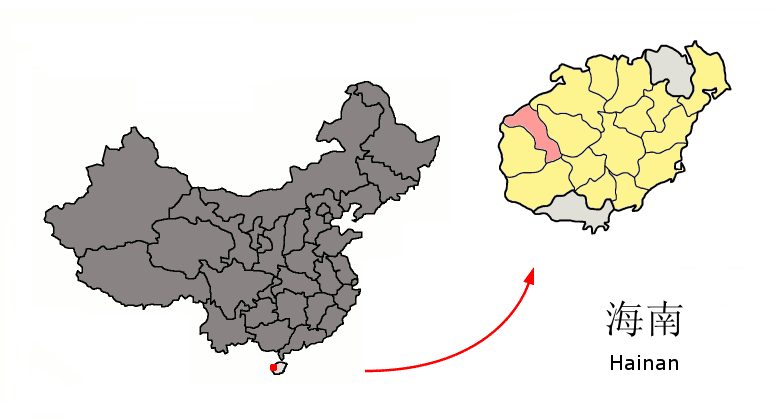 Location of Changjiang County (pink) and the subdivisions directly administered by the province (yellow) within Hainan province of China Map drawn in september 2007 using various sources, mainly : Hainan Counties map from